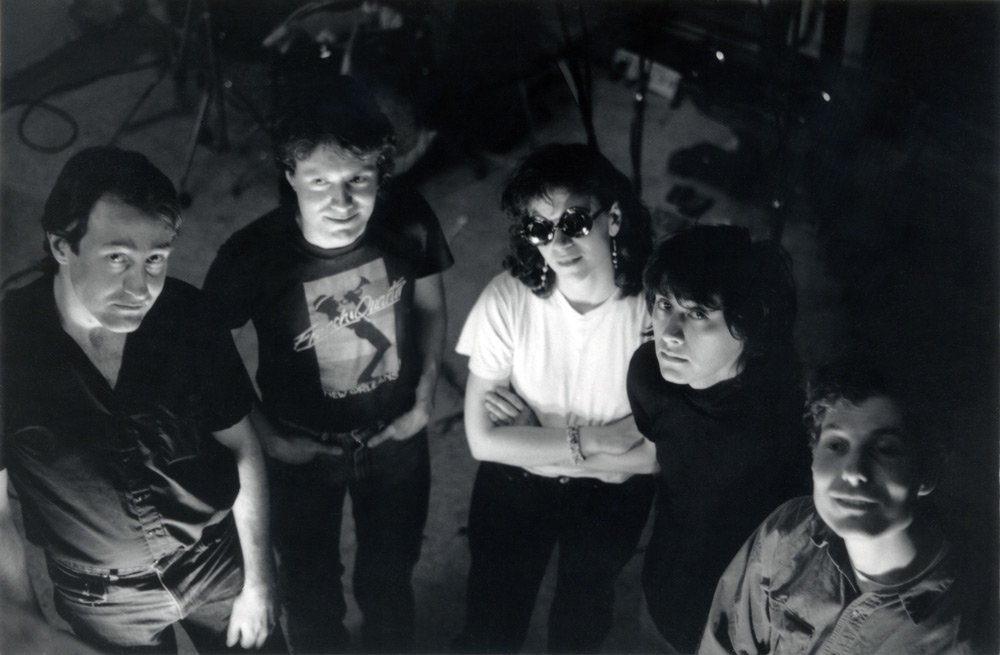 Stump the Host from the early 1990s. Left to right Dave Gay, Brian Dunn, Diane Christiansen, Leslie Santos, Steve Dawson